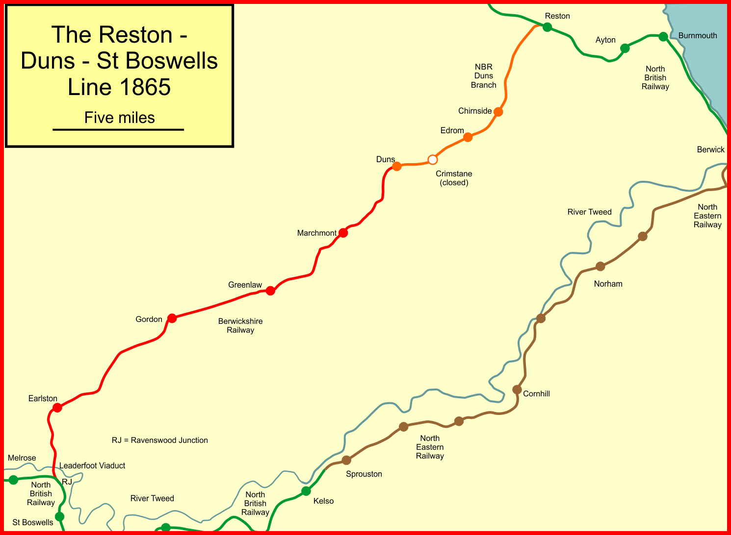 System map of the railway branch lines through Duns, Berwickshire, Scotland, in 1865